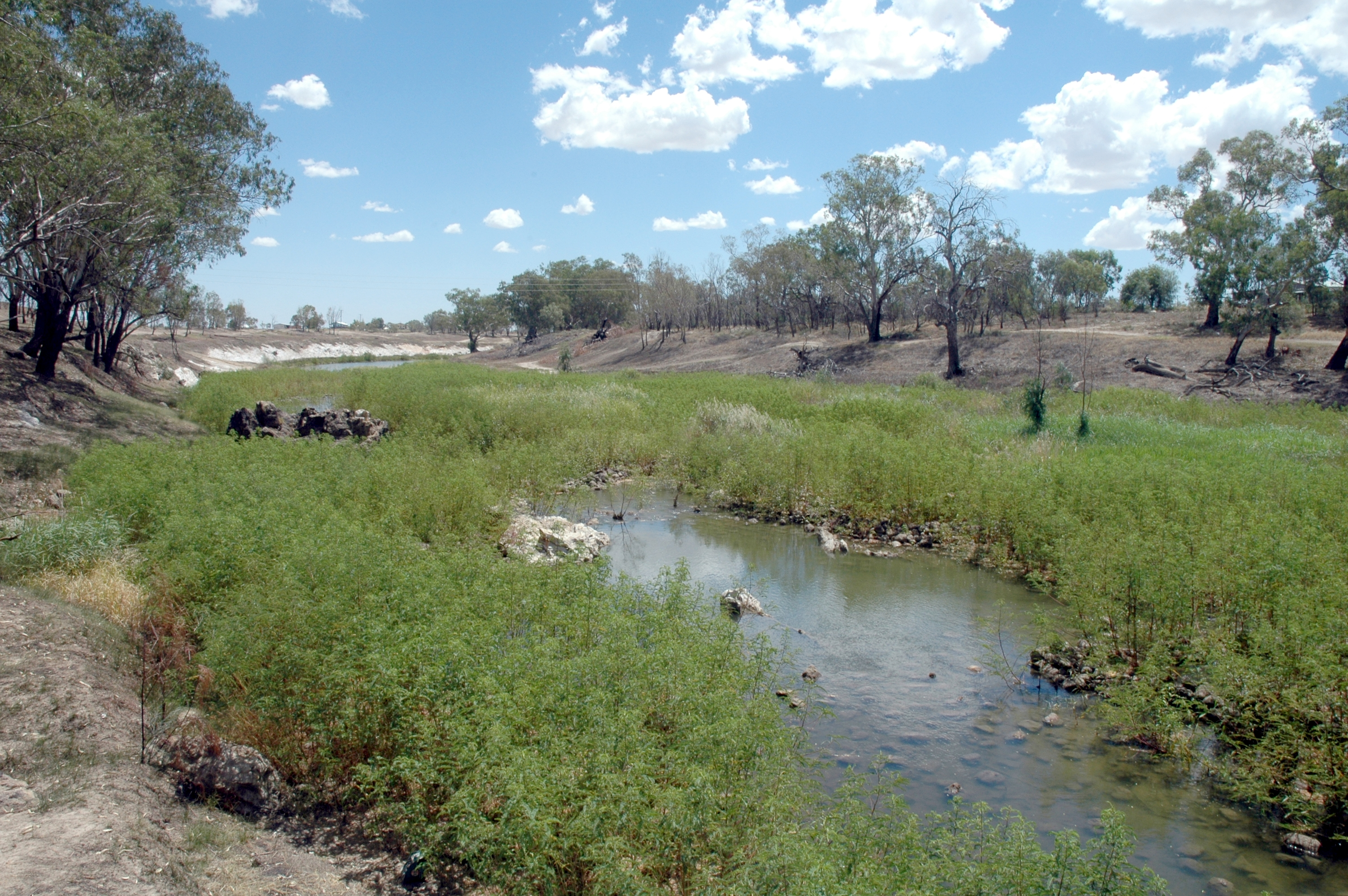 Aboriginal fish traps, Barwon River, Brewarrina, New South Wales Australia. The fish traps consist of river stones arranged to form small channels that direct the fish to a small area from which they can be readily plucked. The fish traps, which are believed to be many thousands of years old, are largely obscured by weed which sadly has been allowed to proliferate.